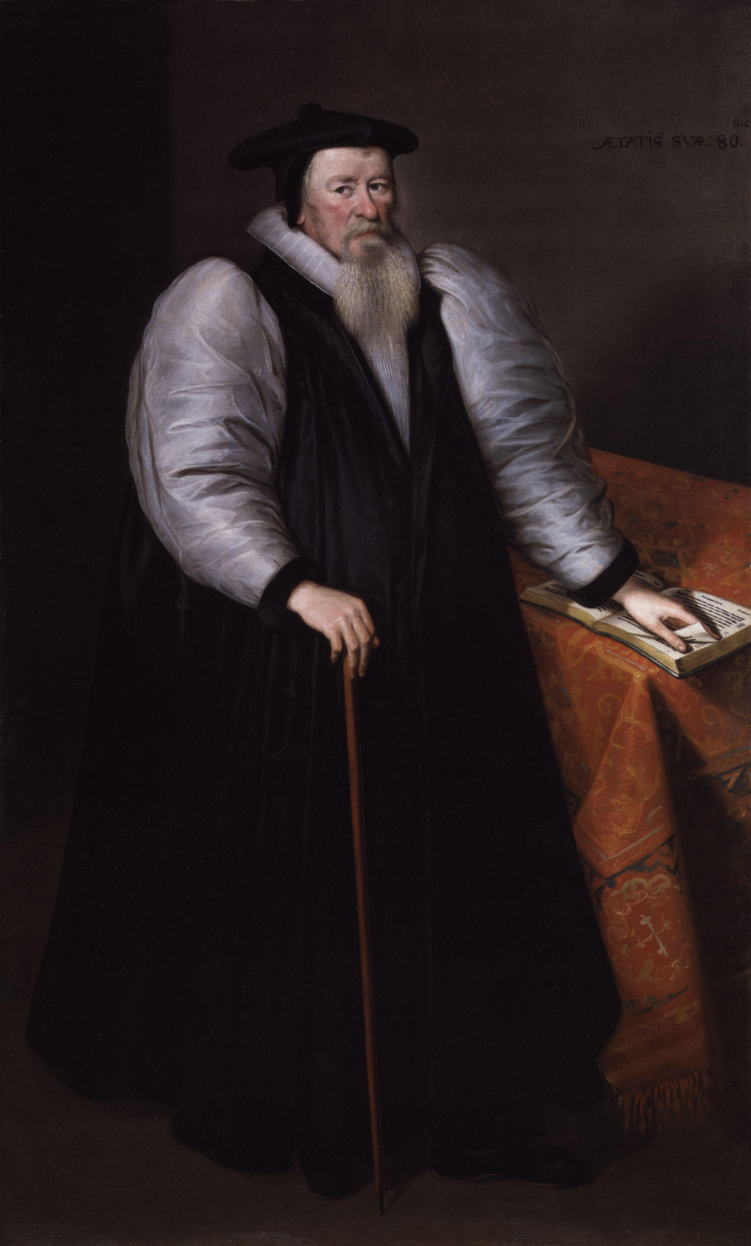 John Thornborough, by unknown artist. All images in this batch have an unknown author, but there is strong evidence it was first published before 1923 (based mainly on the NPG's estimated date of the work).